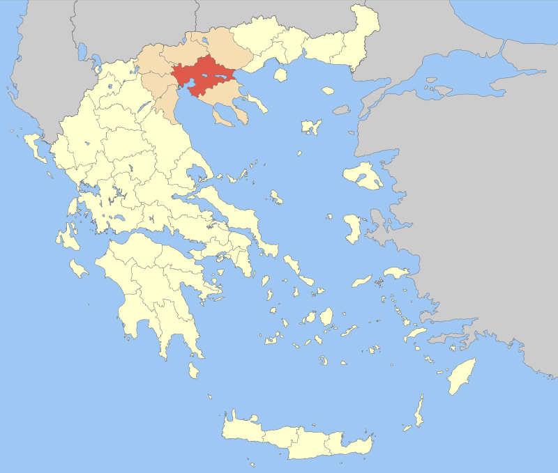 Locator map of Thessaloniki prefecture (Νομός Θεσσαλονίκης) in Greece